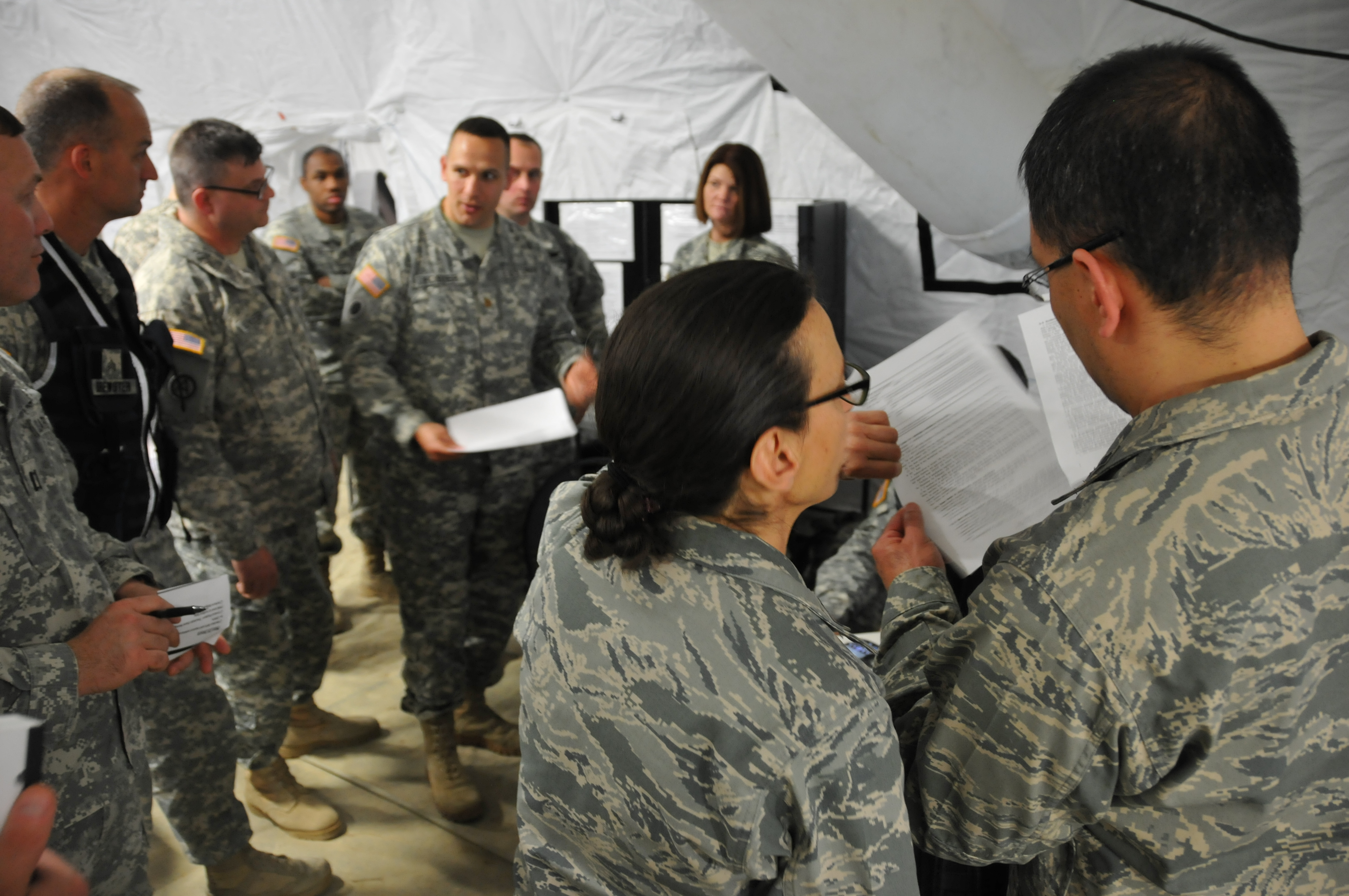 The 200th RED HORSE Detachment 1, Mansfield, Ohio, is hosting a Homeland Emergency Response Force exercise May 3, 2014. Ohio Army National Guard 73rd Troop Command out of Rickenbacker, Columbus, form most of the HERF team with support from the 179th Airlift Wing, 269th Combat Communications Squadron and the 125th Intelligence Squadron out of Springfield. The joint forces exercise prepares FEMA Region 5 for a quick response to any regional emergency that arises. (U.S. Air National Guard Photo by Tech. Sgt. Joseph Harwood \Released)